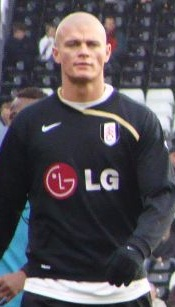 Danny Murphy and Paul Konchesky of Fulham FC.